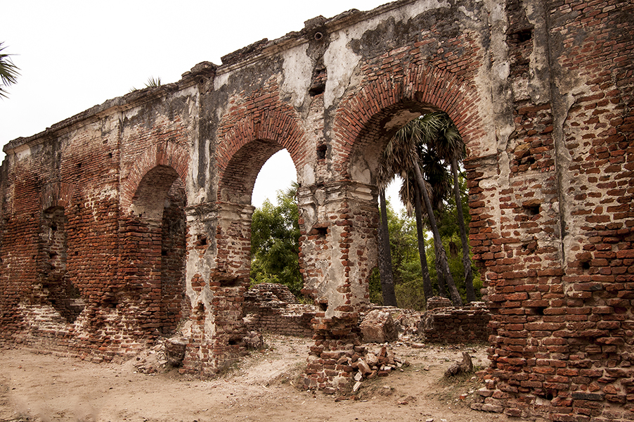 It is the Arikamedu Archeological Site, Near Pondicherry. It is around 8 Kms from Pondicherry. It has the most Historical Stories.